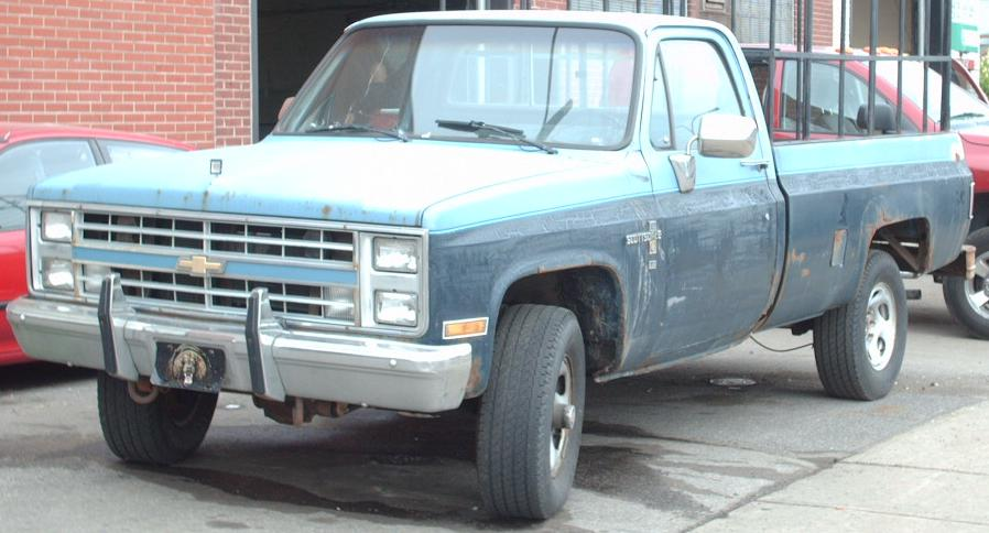 1982-1987 Chevrolet C/K Scottsdale photographed in Montreal, Quebec, Canada.